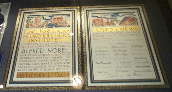 The Nobel Prize diploma of Otto Loewi, displayed in the Royal Society, London. Copyright © 2004 Kaihsu Tai.